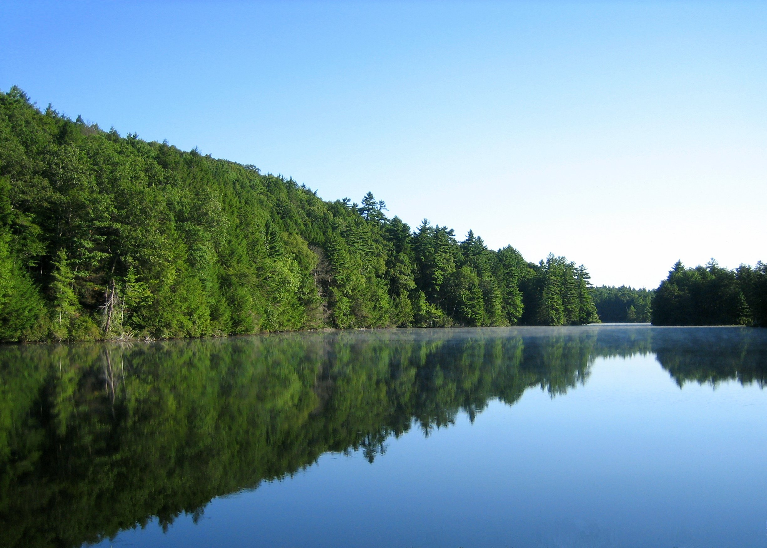 Bigelow Pond in Union, Connecticut on September 6, 2005. Picture taken from route 171 at 8:41AM. Picture information: Cannon PowerShot SD400 Focal length : 39mm (35mm equiv) f/2.8 @ 1/640s